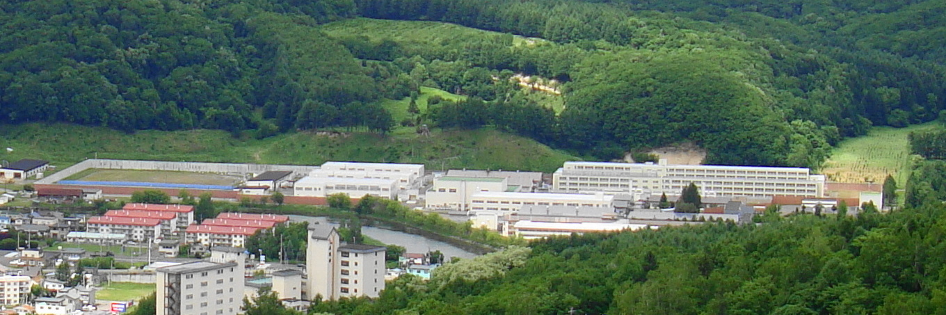 Abashiri Prison